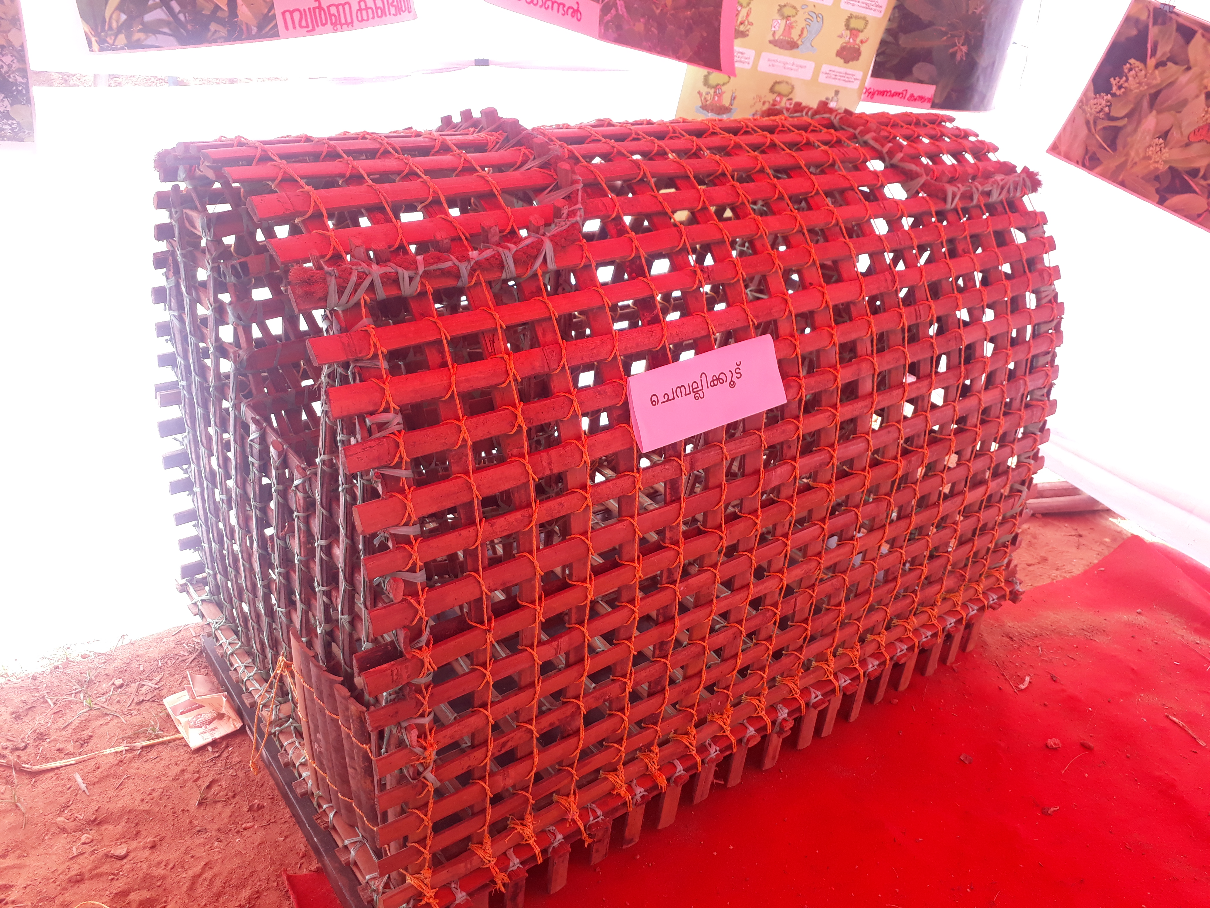 a villege instrument to catch fish